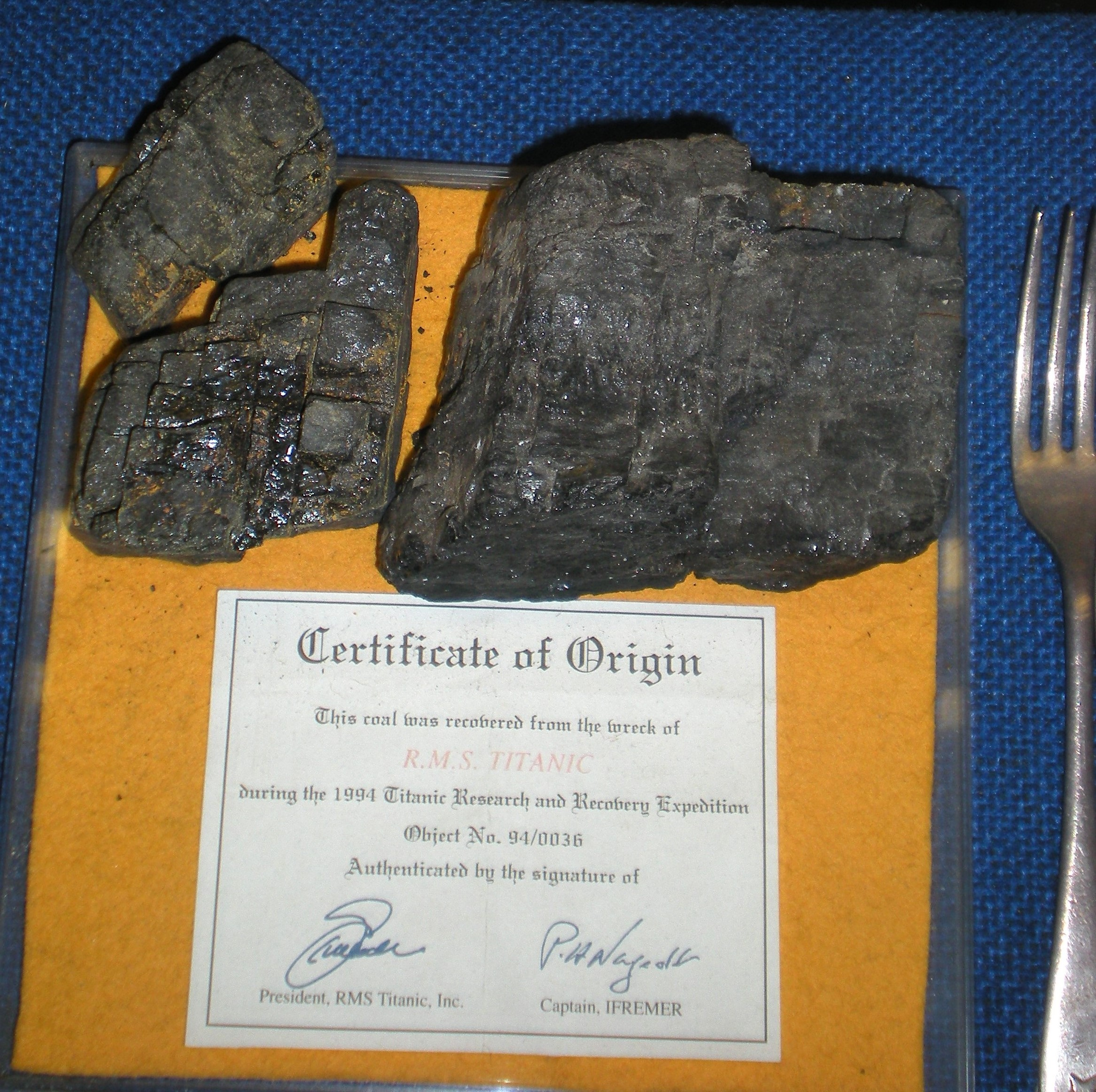 "Certificate of Origin: This coal was recovered from the wreck of R.M.S. Titanic during the 1994 Titanic Research and Recovery Expedition. Object No. 94/0036. Authenticated by the signature of President, RMS Titanic, Inc.; Captain, IFREMER."Exhibited at the National Shipwreck Museum in Charlestown, Cornwall, South West England.